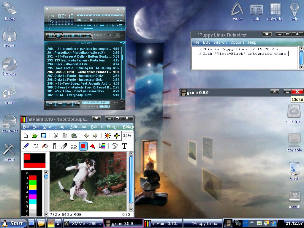 Puppy Linux OS v2.15 CE 2 Viz Edition screenshot